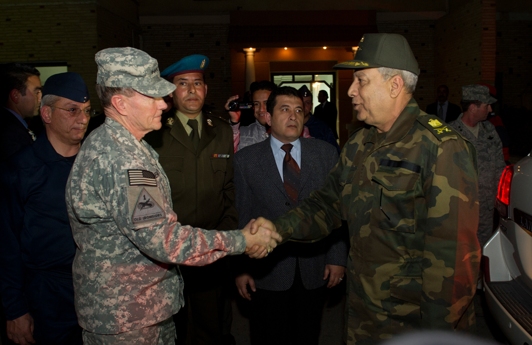 Egyptian Maj. Gen. Hassan al-Roueini, Central Military Zone Commander, and Gen. Martin E. Dempsey, chairman of the joint chiefs of staff, shake hands at Cairo East Air Force Base, Egypt, Feb. 10, 2012. DoD photo by D. Myles Cullen